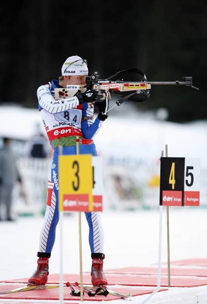 Teja Gregorin in 2009